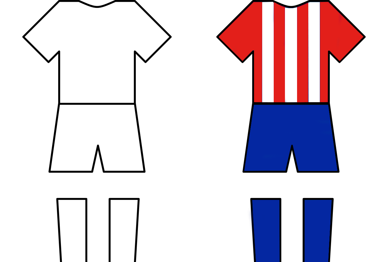 The team kits of Real Madrid & Atletico Madrid